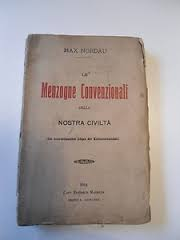 copertina di testo edizioni Madella di oltre 70 anni